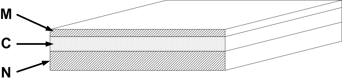 Gurney equations explosives engineering diagram of assymetrical mass flyer plates (plates of mass M and N) and charge mass C.